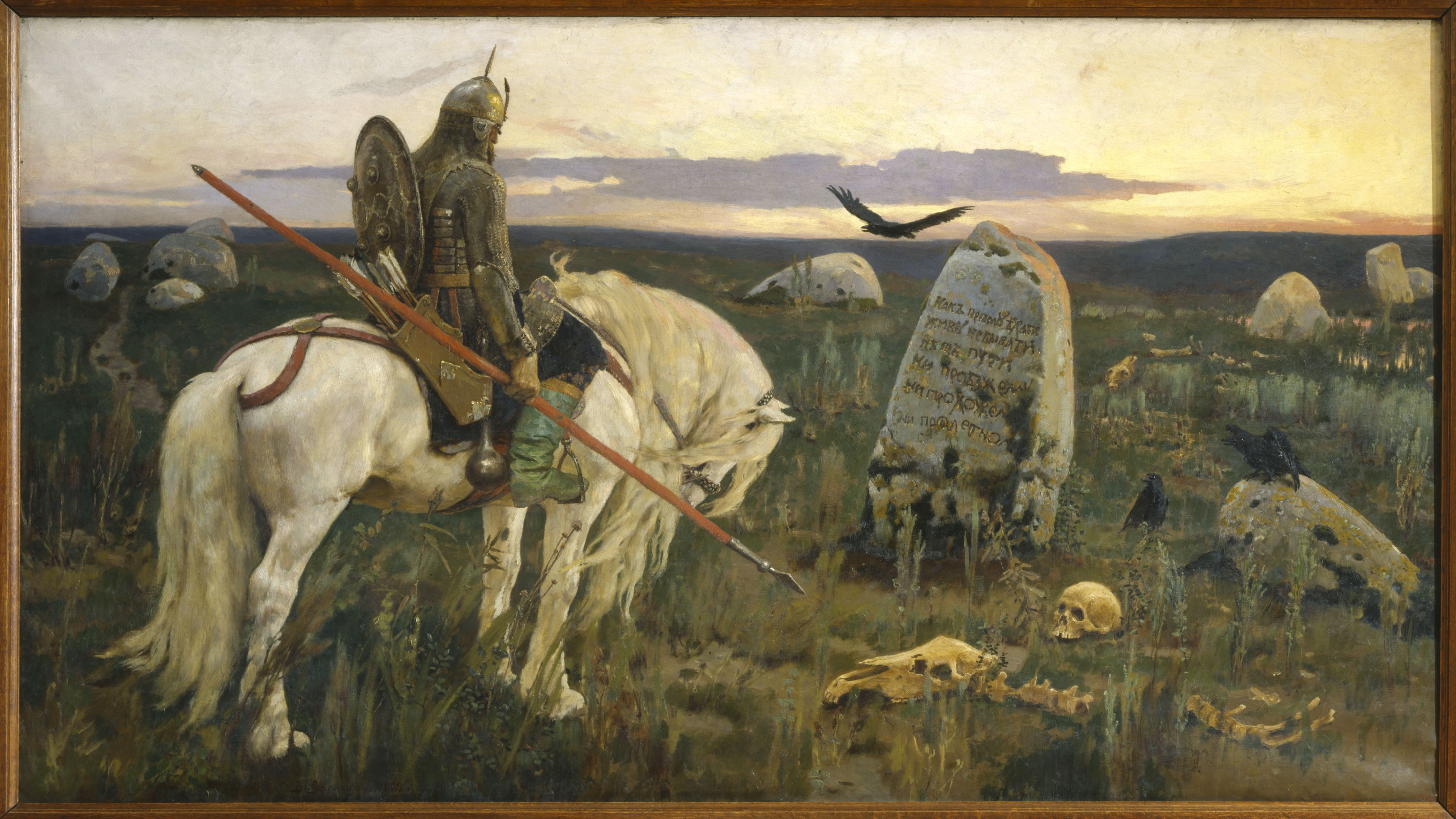 The painting is an illustration to a common motif of Russian folk fairy tales, when a hero comes to a fork in the road and sees a menhir with an inscription telling him what awaits him in each direction. In this case, the only visible words are "Как пряму ехати — живу не бывати — нет пути ни прохожему, ни проезжему, ни пролетному" (If you go straight, you will not be alive—there is no path for either the walker, the rider, or the flier."